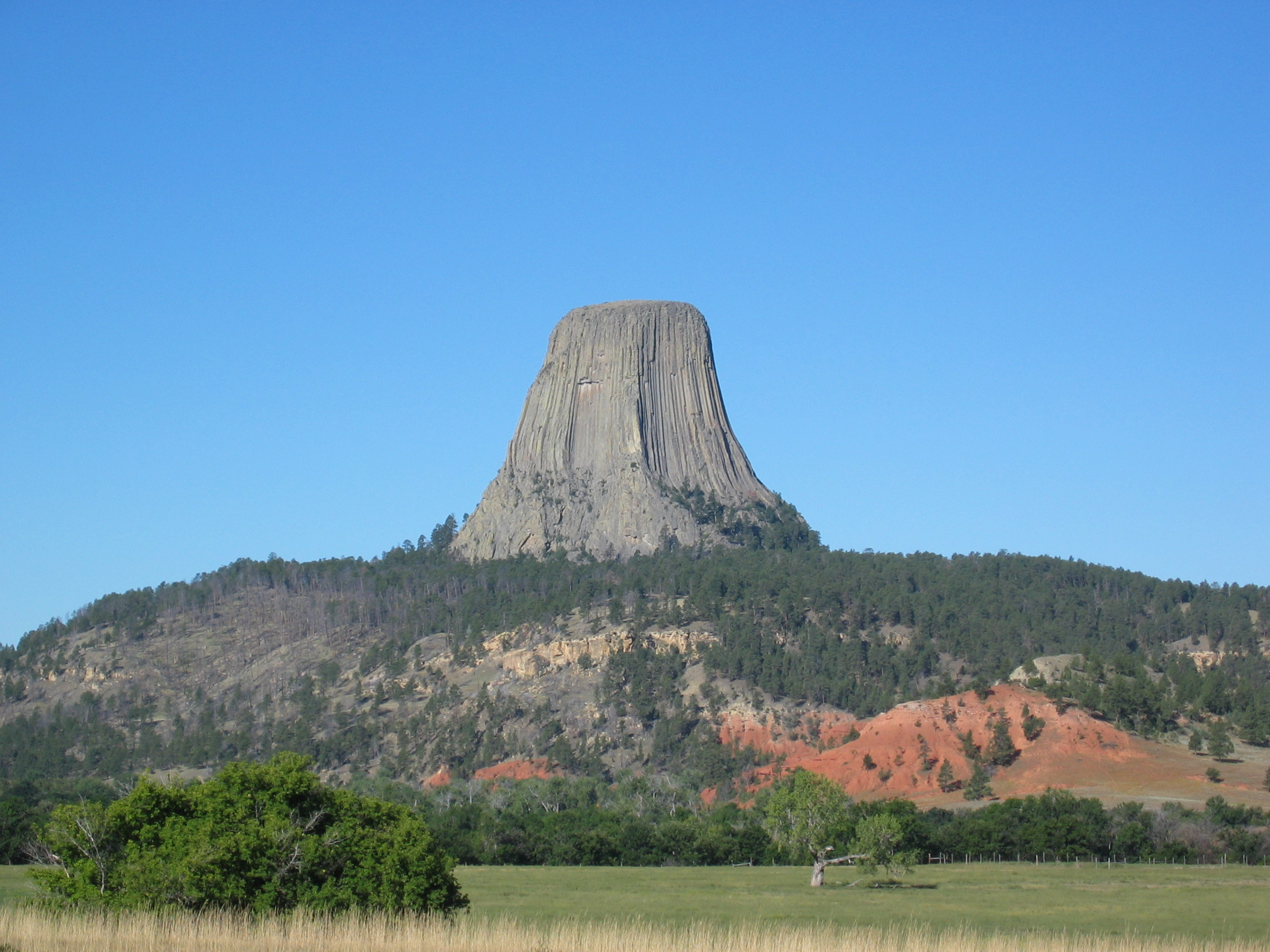 Devil's Tower National Monument in Wyoming